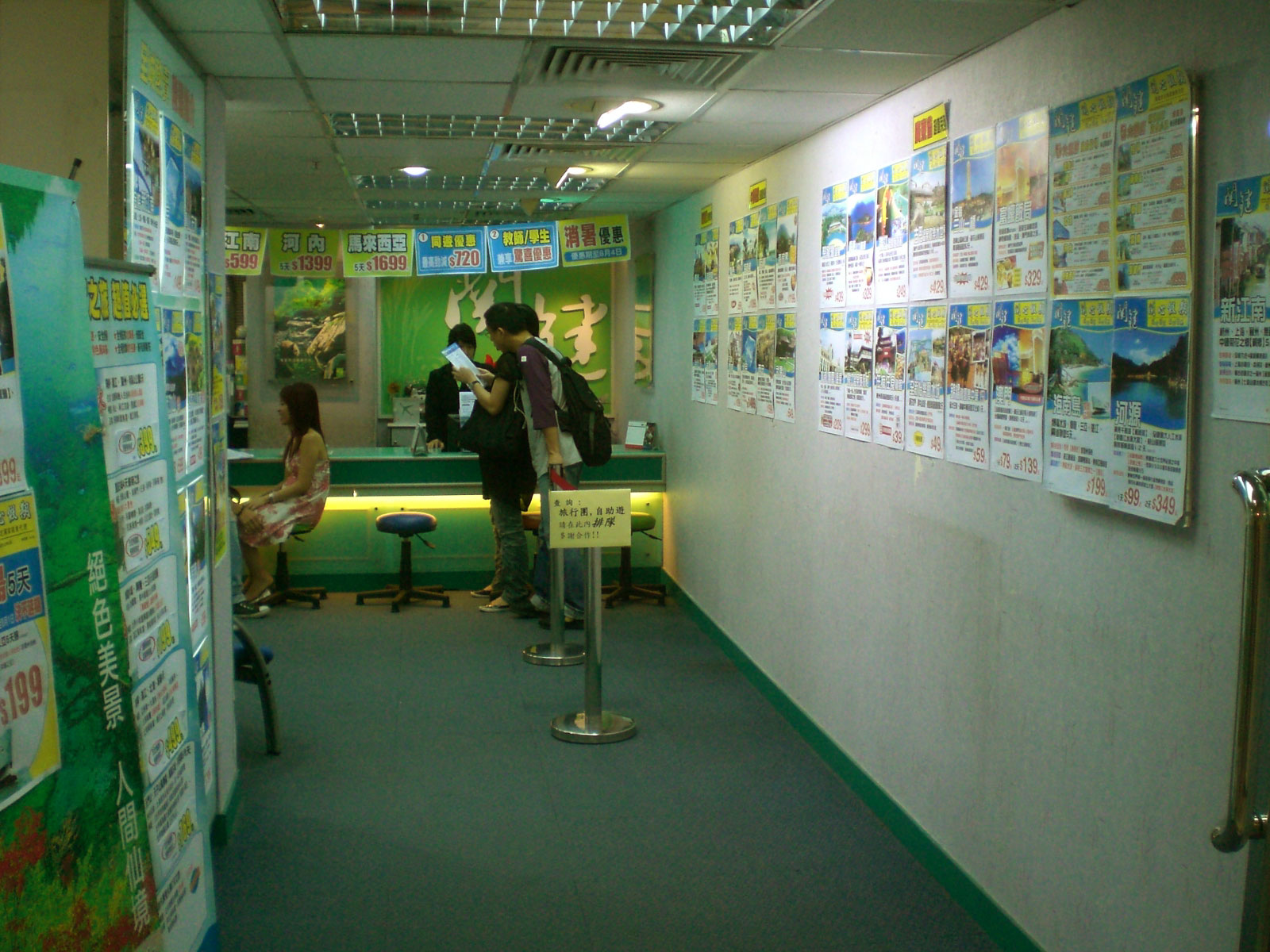 關鍵旅遊 @ 銅鑼灣恆隆中心